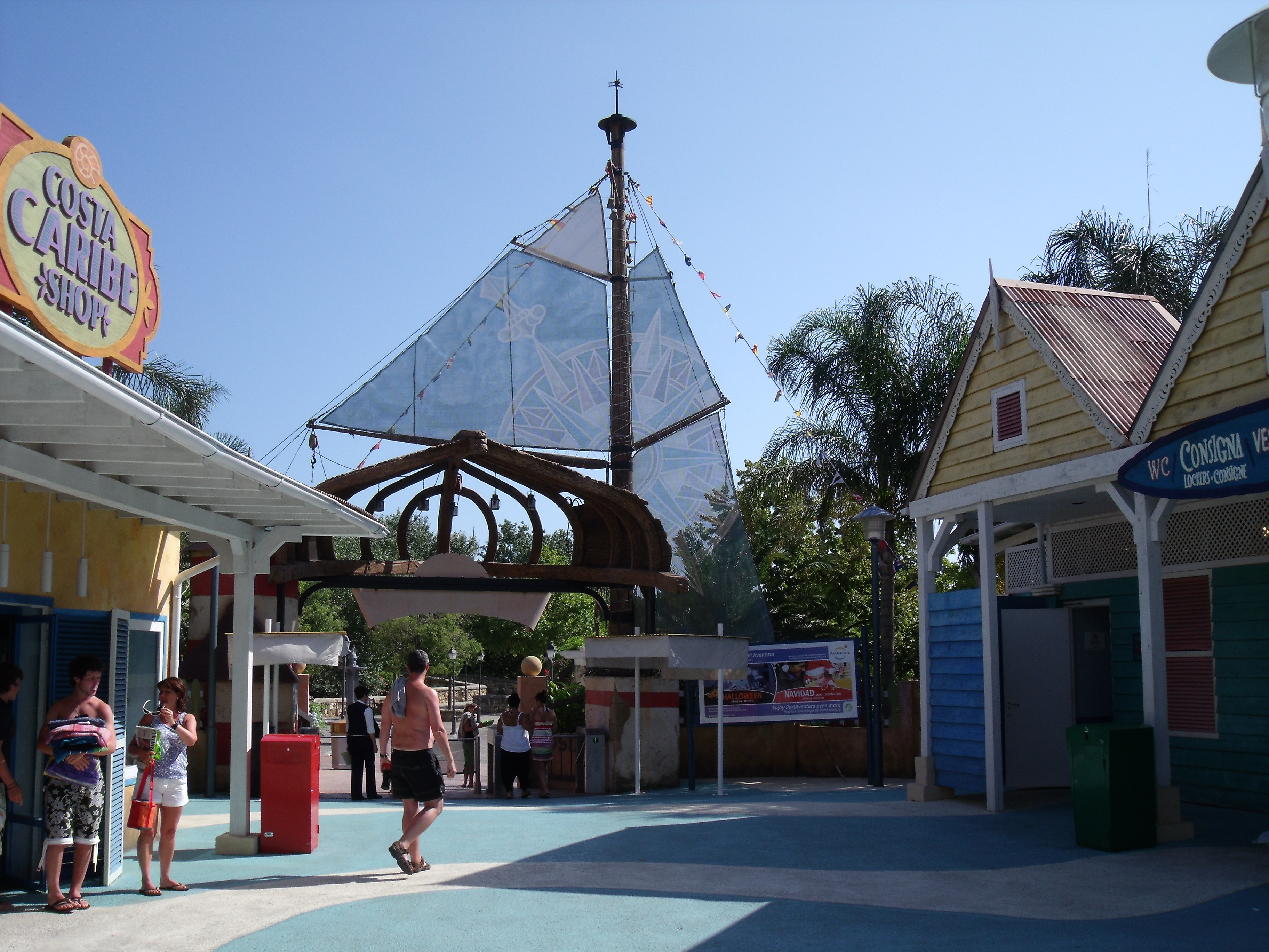 The entrance of Caribe Aquatic Park (view from inside the park).